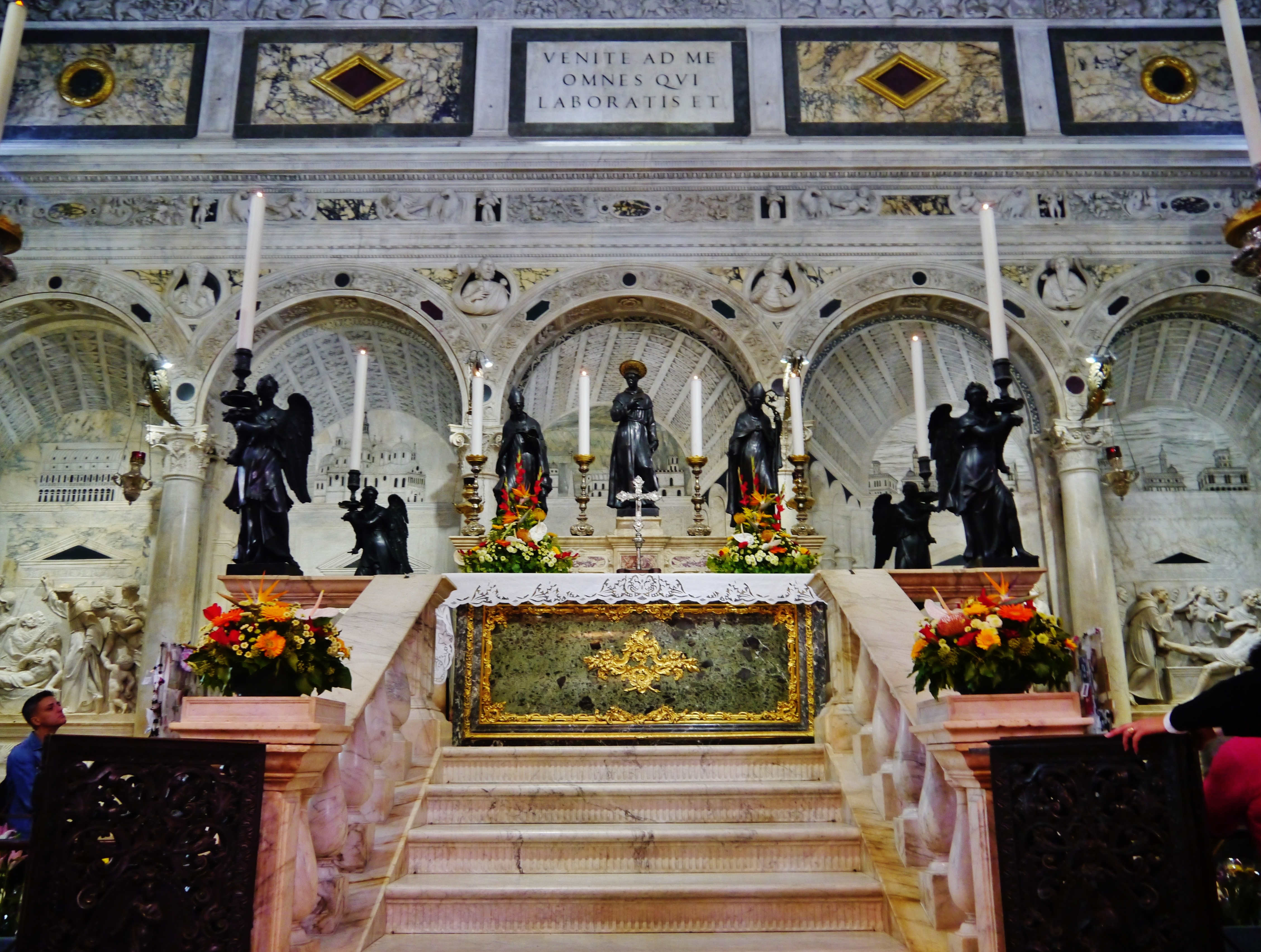 Chapel of St. Anthony of the Basilica of St. Anthony, Padua, Province of Padua, Region of Veneto, Italy